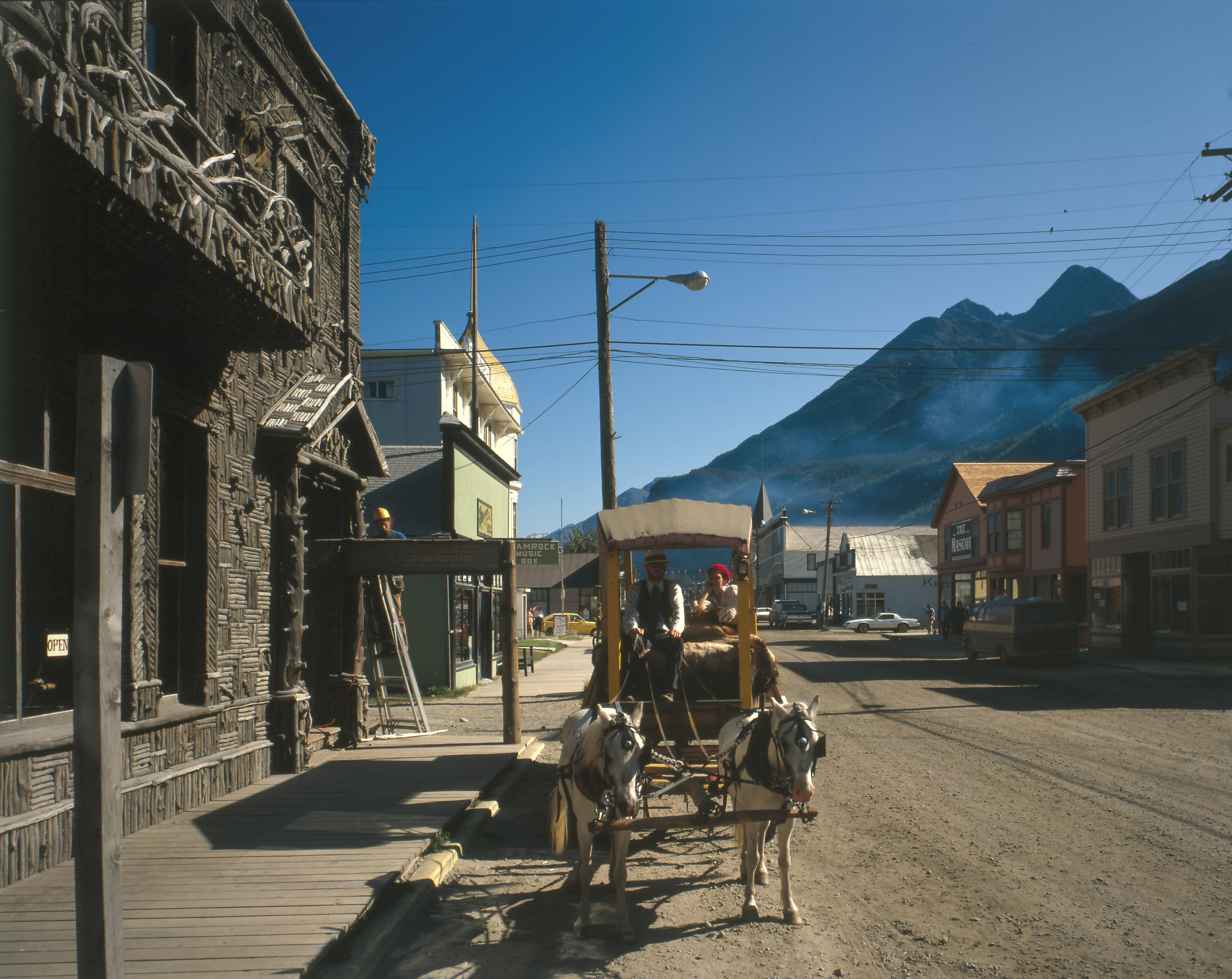 Broadway Avenue, Skagway, Alaska, USA. The Arctic Brotherhood Hall is on the extreme left.